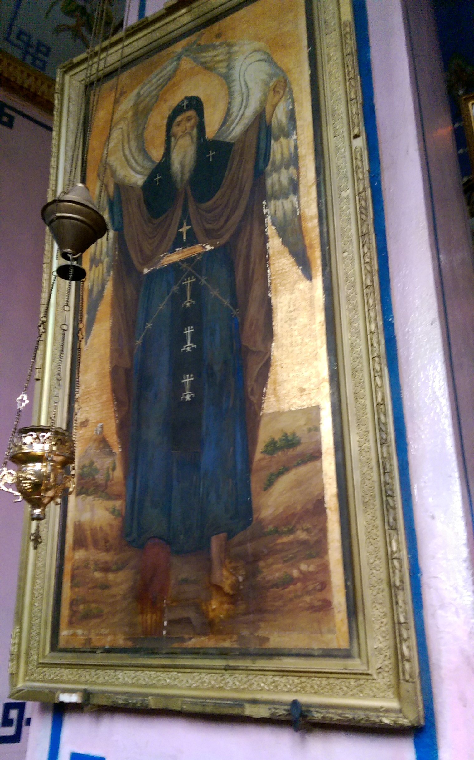 Icon of Saint Tekle Haymanot of Ethiopia at the Ethiopian Abyssinian Church, Jerusalem